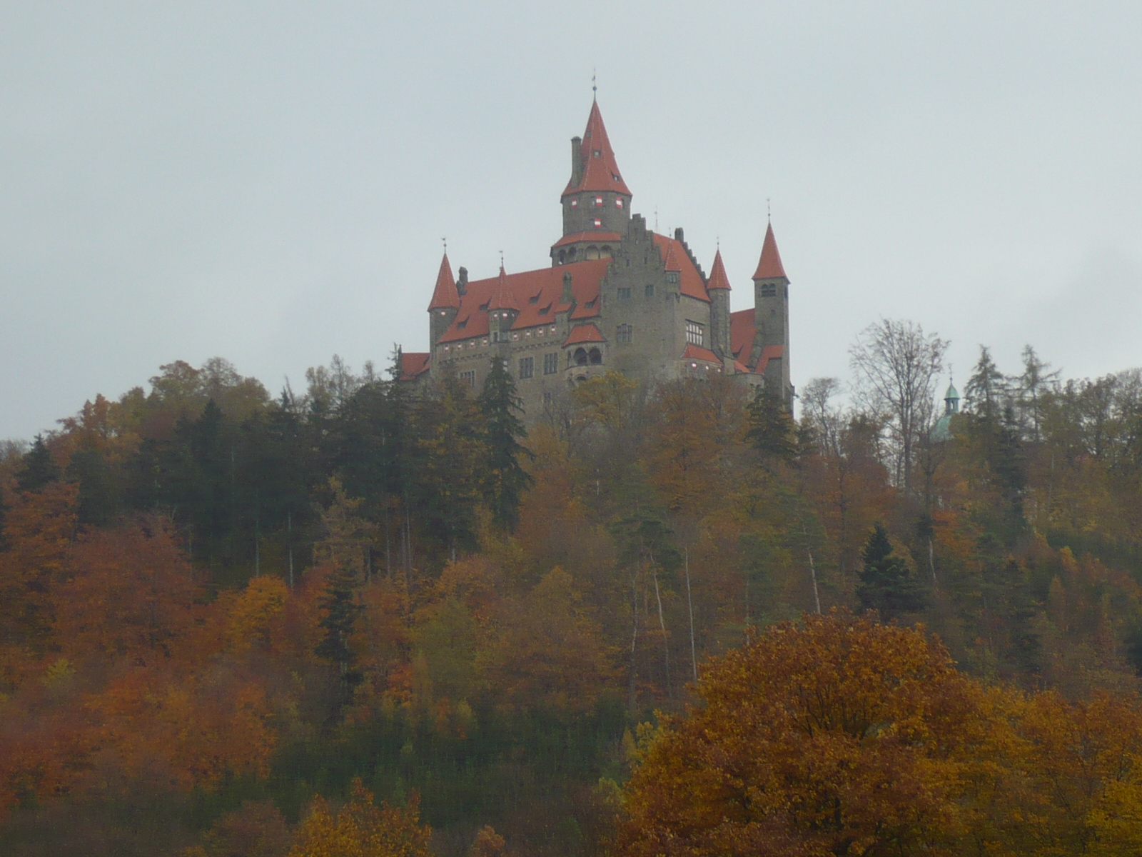 Castle Bouzov, District Olomouc, Czech Republic